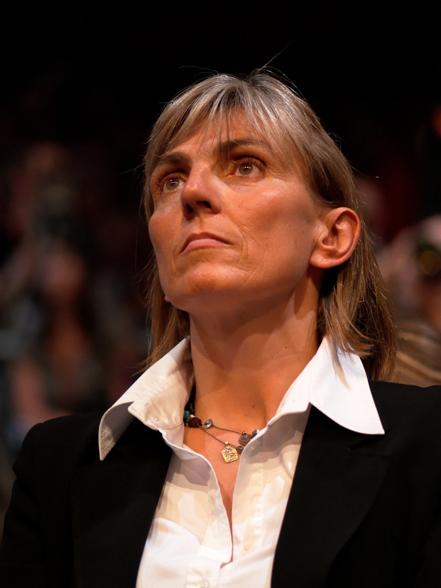 Senator Valérie Létard at a rally for François Bayrou, centrist candidate in the 2007 French presidential election, heald on Apr. 18, 2007 at Paris Bercy.